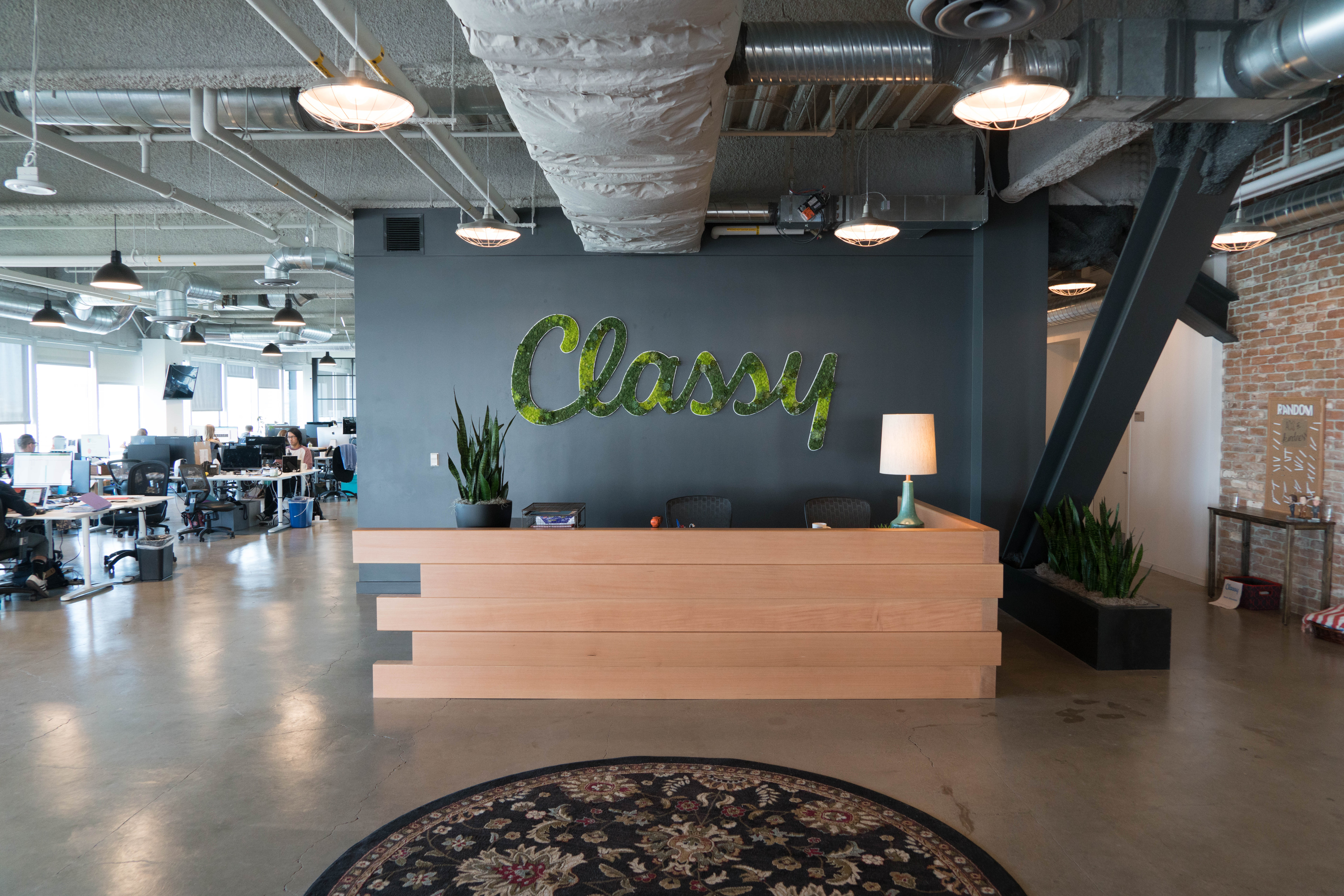 The front desk of Classy, a crowdfunding software as a service company in San Diego, California.